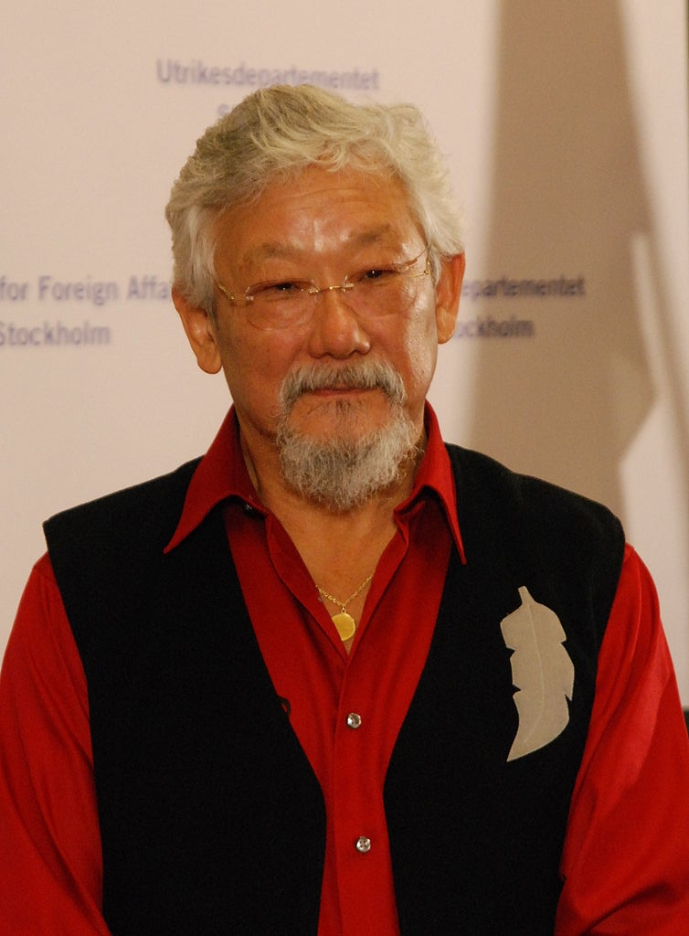 Press conference with the laureates of the 30th Right Livelihood Award 2009: David Suzuki